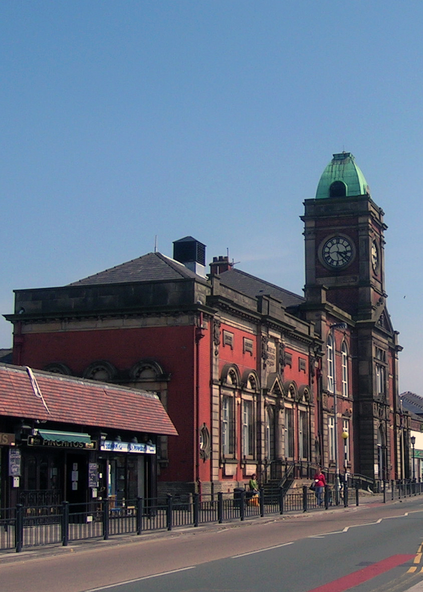 Royton Town Hall, and ajoining Carnegie Library (on the left), in Royton, Greater Manchester, England.